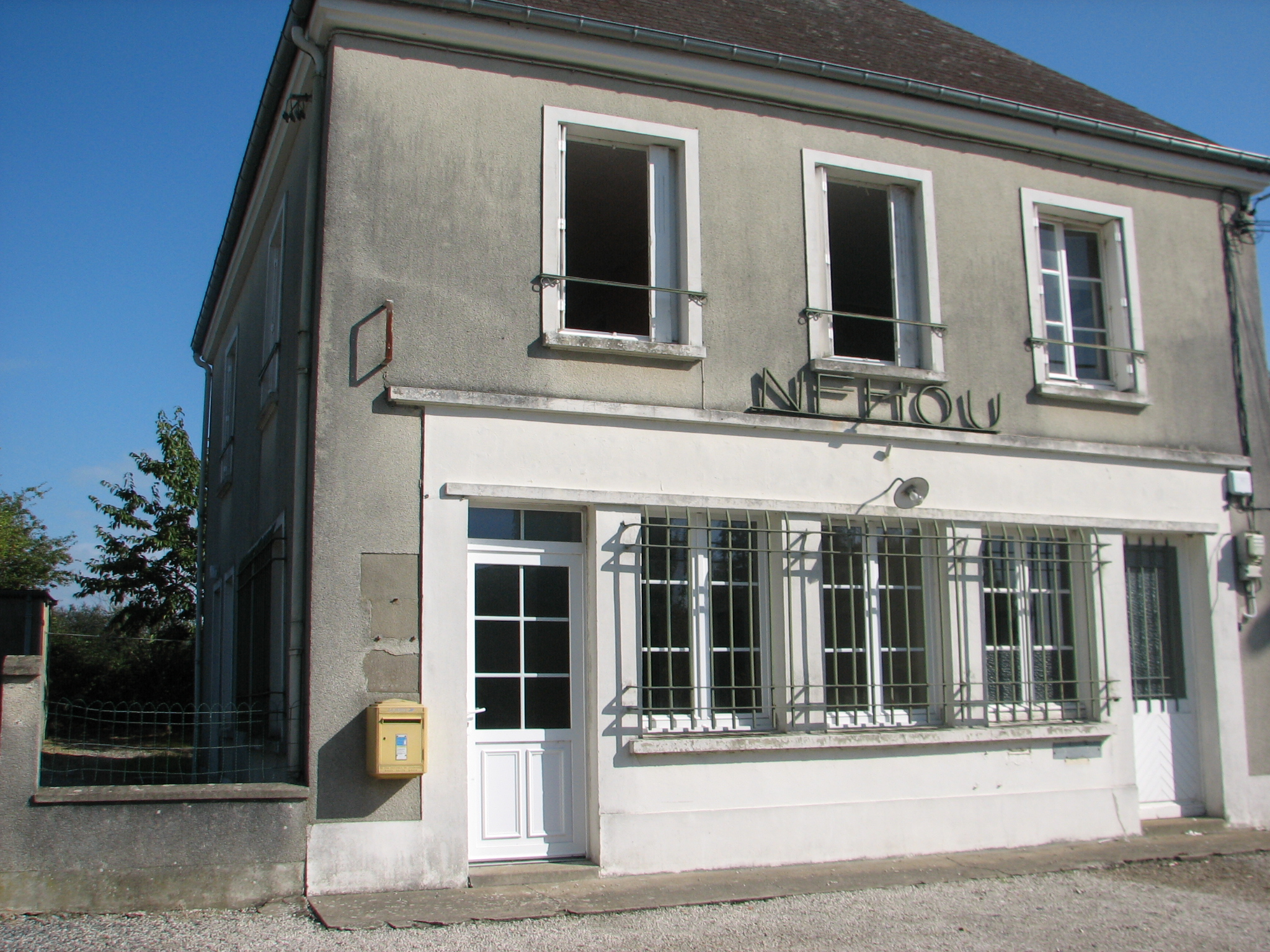 the old post office Néhou